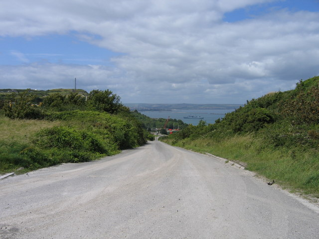 Admiralty Incline, Isle of Portland When the Portland Harbour breakwaters, seen in the background, were built in the middle of the 19th century, much of the stone was taken from quarries in the north-east corner of the Isle. It was lowered down this incline, which was then a continuation of the quarry tramways but is now a road to the east end of the dockyard.